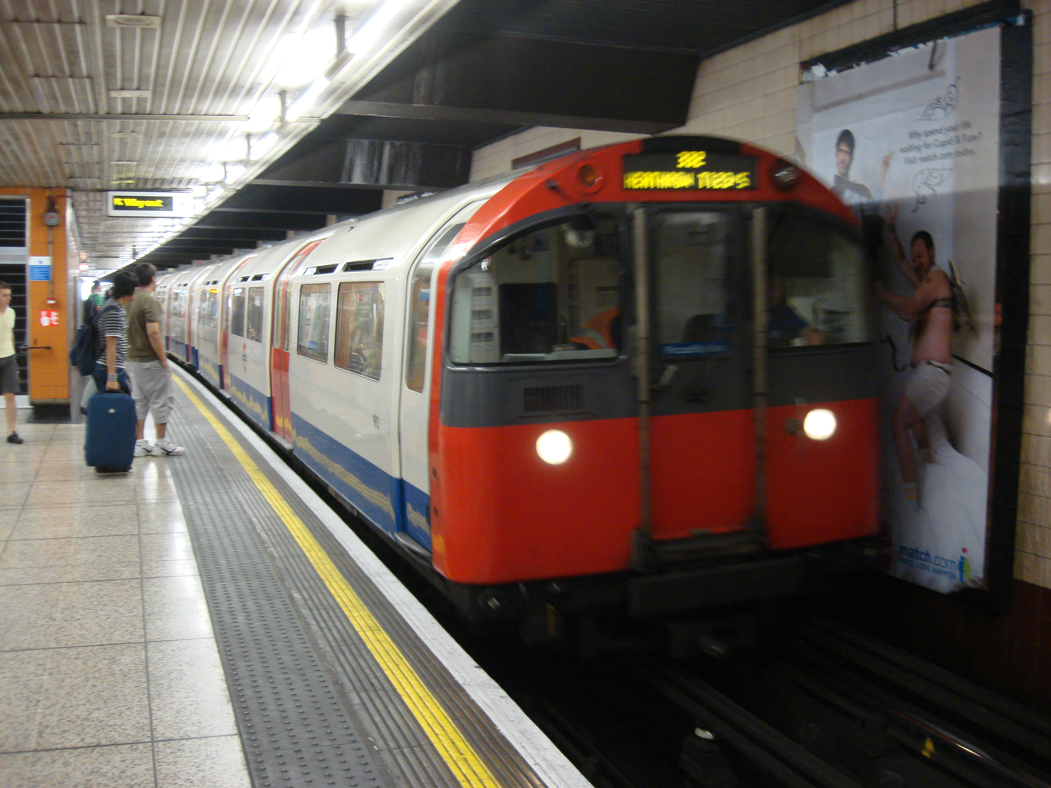 London Underground 1973 Stock at Hounslow West tube station